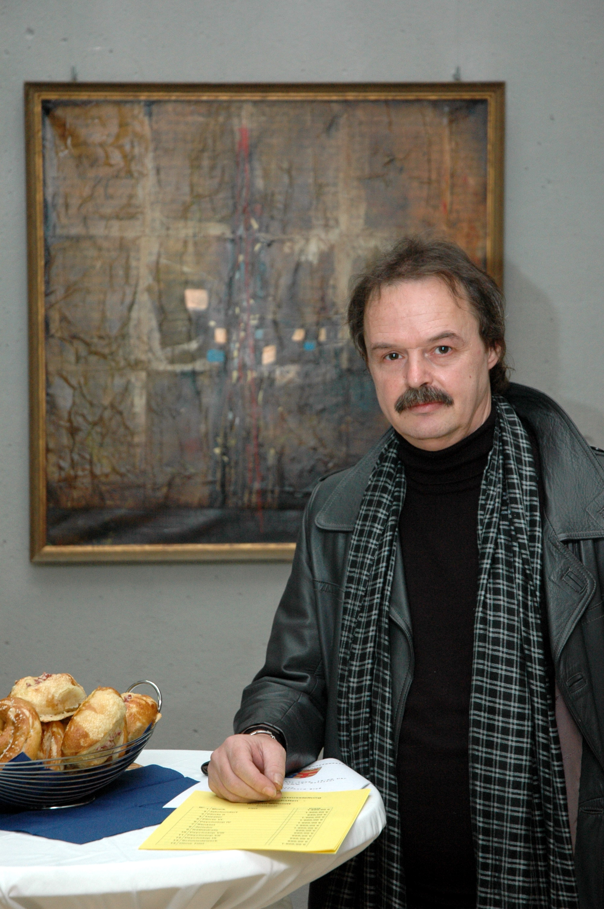 Roland Schmitt in front of one of his painting